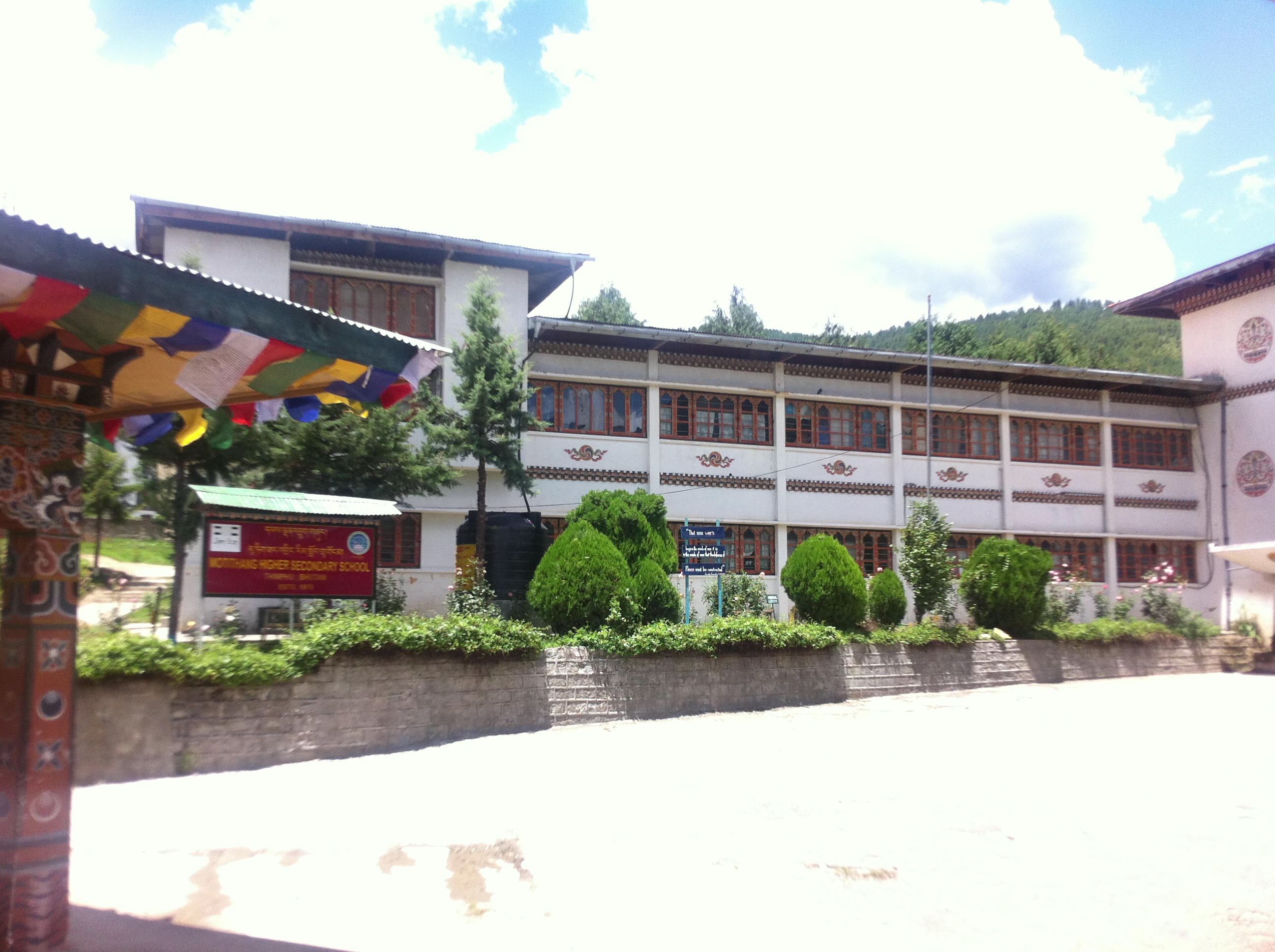 View from the front gate of the school.